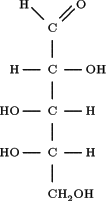 Fischer projection of L-arabinose (generated at ) PPCHTeX source: \definechemical[L-arabinose_Fischer] { \chemical[ONE,Z0,DB8,SB36,Z86][C,O,H] \chemical[MOV3,ONE,Z0,SB135,Z51][C,H,OH] \chemical[MOV3,ONE,Z0,SB135,Z51][C,HO,H] \chemical[MOV3,ONE,Z0,SB135,Z51][C,HO,H] \chemical[MOV3,ONE,Z0,SB7][\SL{CH_2OH}]} \startchemical \chemical [L-arabinose_Fischer] \stopchemical